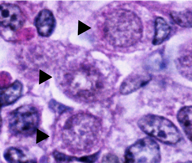 Figure 4.B. Up-regulation of gonocyte markers in XX Rspo1 mutant gonads. Haematoxylin & Eosin staining of XX gonad at E16.5. GO/G1 quiescent gonocytes are indicated by arrowheads.